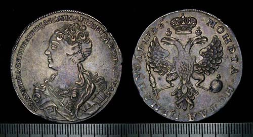 Rubl 1726